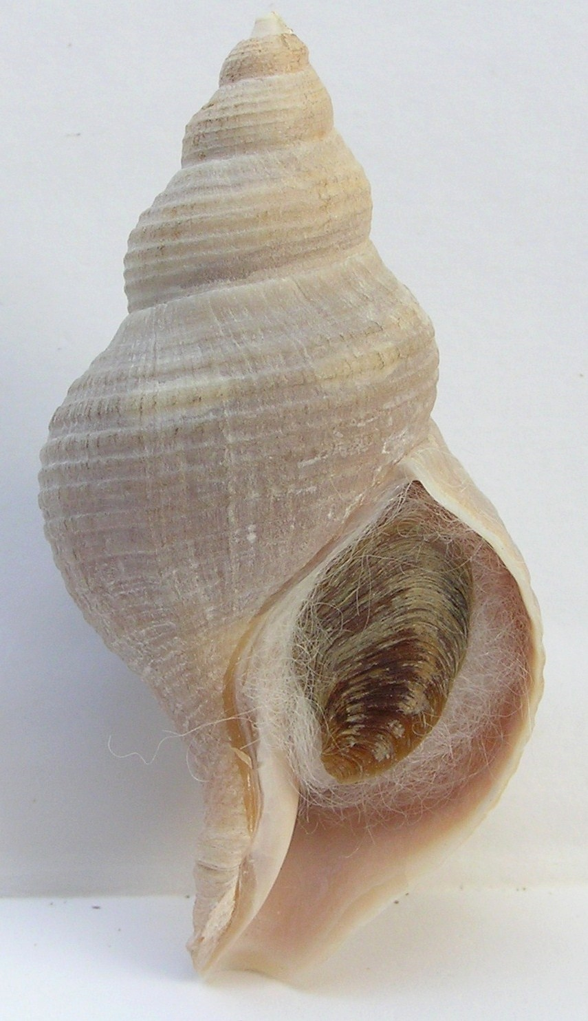 Neptunea ithia (Dall, 1891), a true whelk in the family Buccinidae; British Columbia, Canada